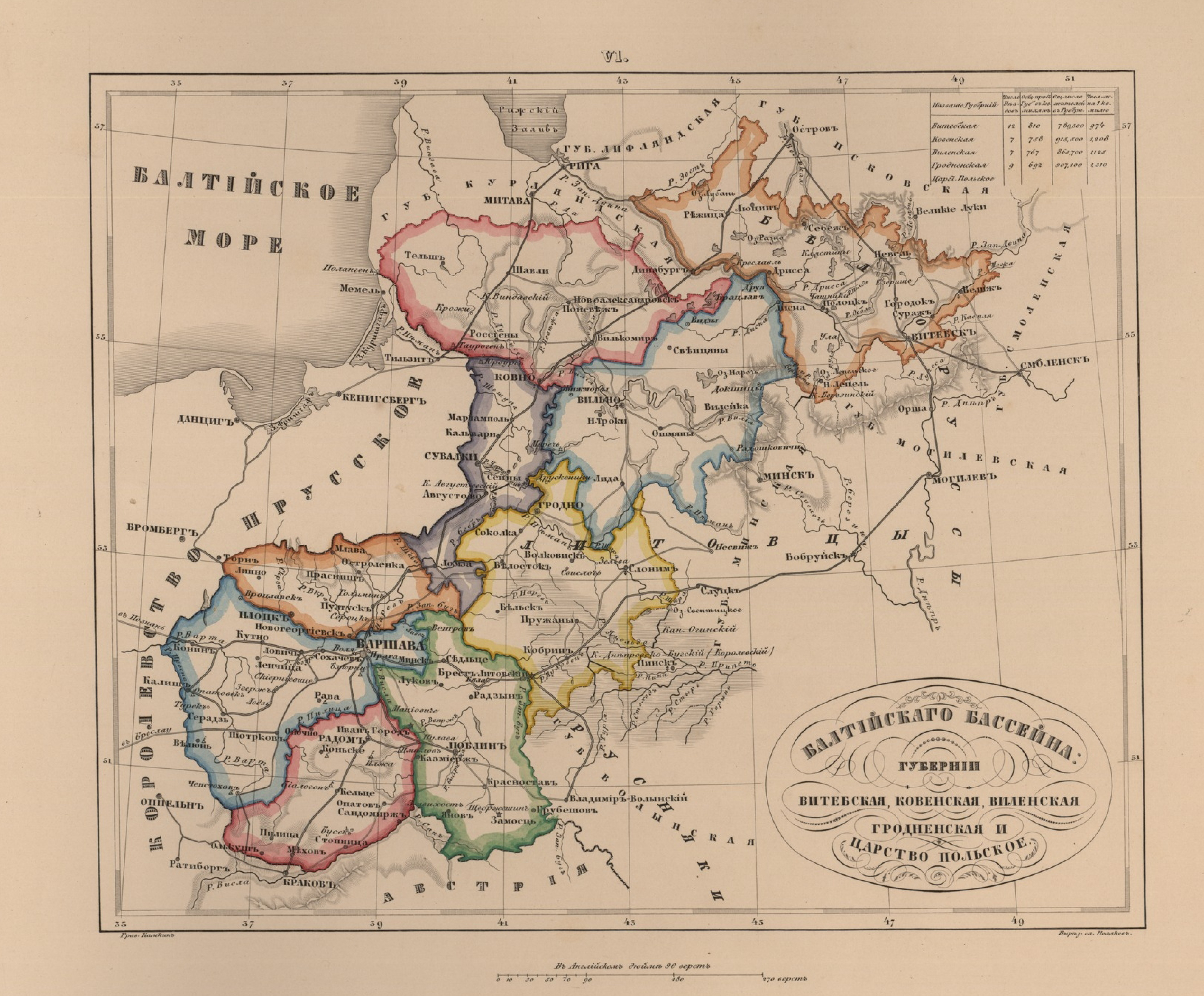 a map #6 ("Congress Poland and Lithuanian governorates") from the book "Географический атлас Российской империи / Сост. на основании Высочайше утвержденного наставления 24 декабря 1848 года Александром Вощининым. — Санкт-Петербург : 1851. — 17 л.". - by the topographer Alexander Voschinin (officer of Russian empire). Made in 1851 AD